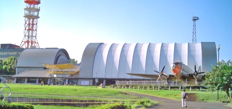 Tokorozawa Aviation Museum - located in Kōkū-kōen Park, Tokorozawa, Japan.